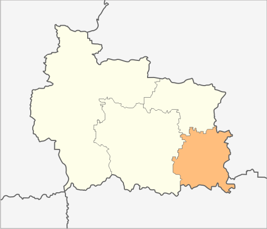 Map of Tryavna municipality, Gabrovo Province